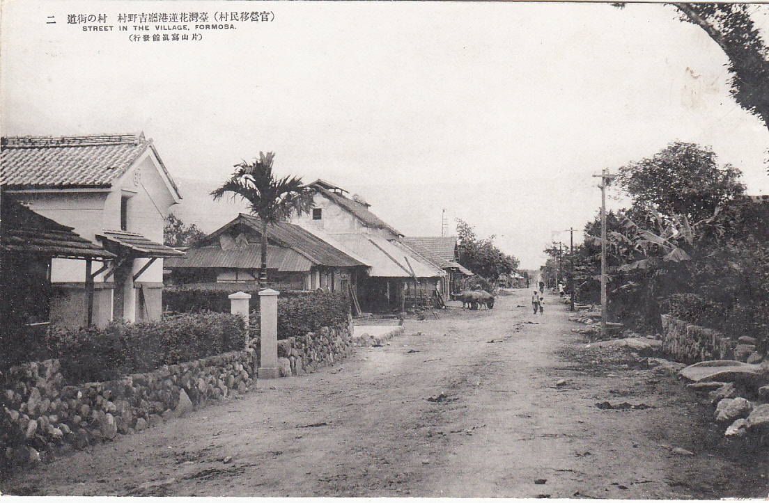 STREET IN THE VILLAGE, FORMOSA